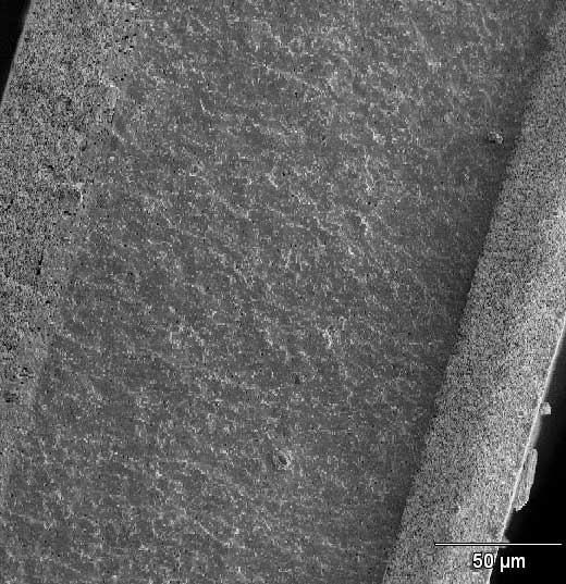 Cross section of the three ceramic layers of an solid oxide fuel cell (SOFC). From left to right: porous cathode, dense electrolyte, porous anode